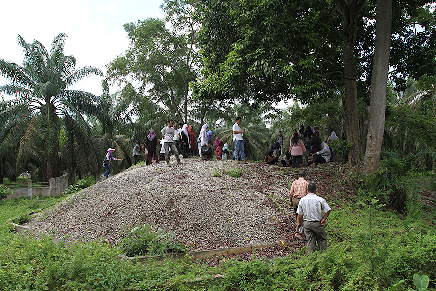 A huge pile of waste mollusc shells from early history